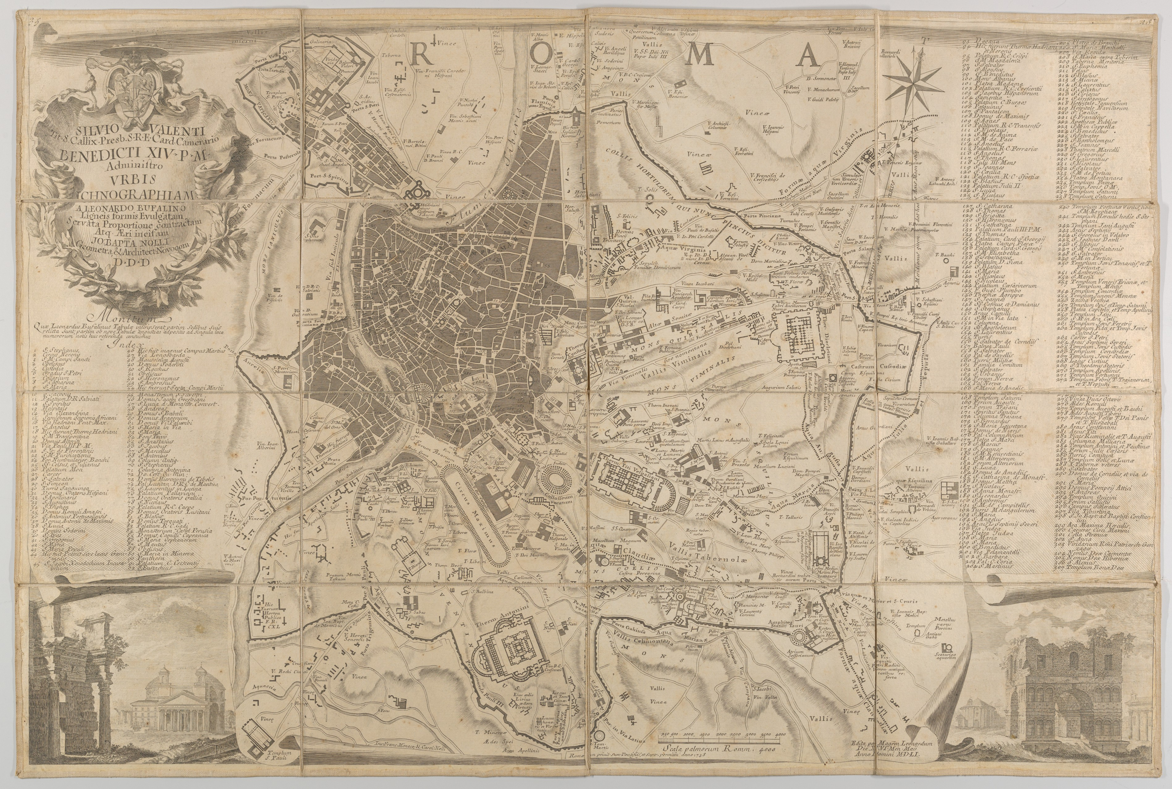 Book, Print; Prints